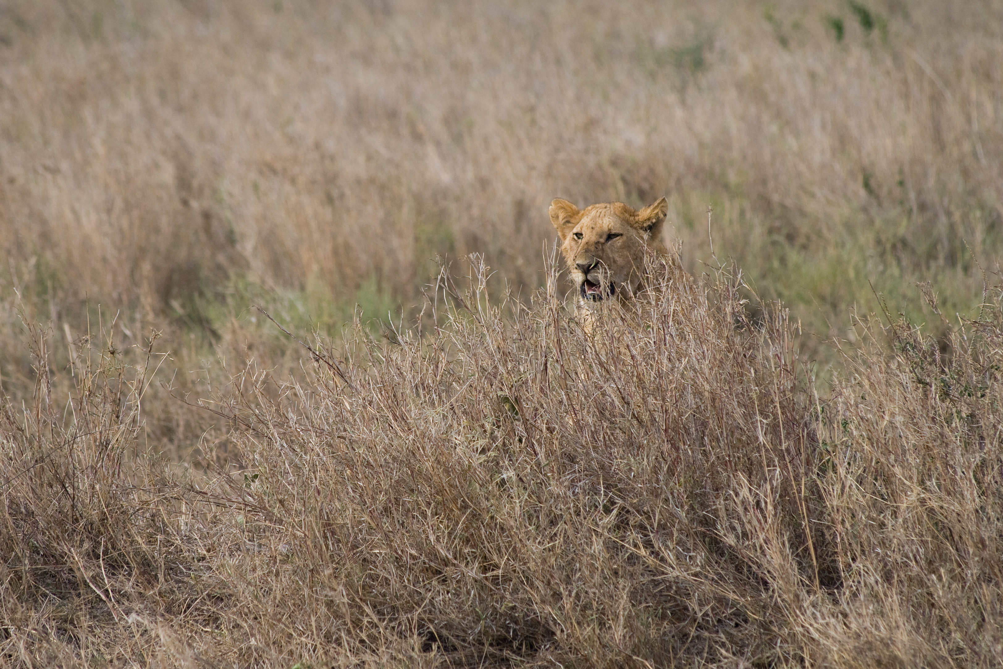 Female Panthera leo in the wild.